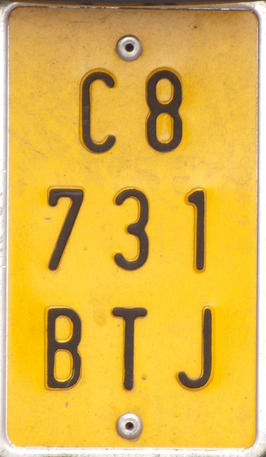 Spanish licence plate of small motorbikes (less than 125 cm3)